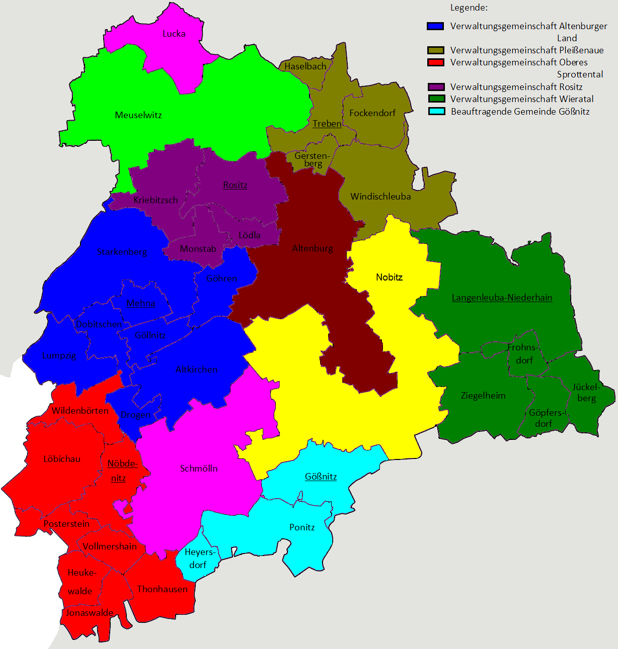 Cities and municipalities in district of Altenburger Land/Thuringia (Germany)